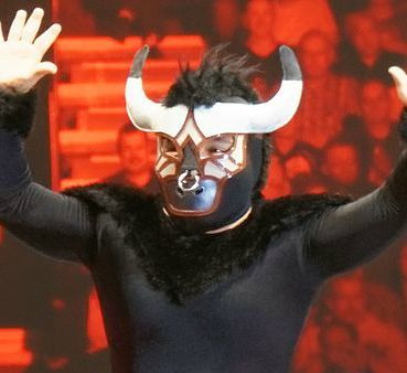 Los Matadores (aka Eddie and Orlando Colon) with El Torito (aka Mascarita Dorada) in the ring in November 2013.